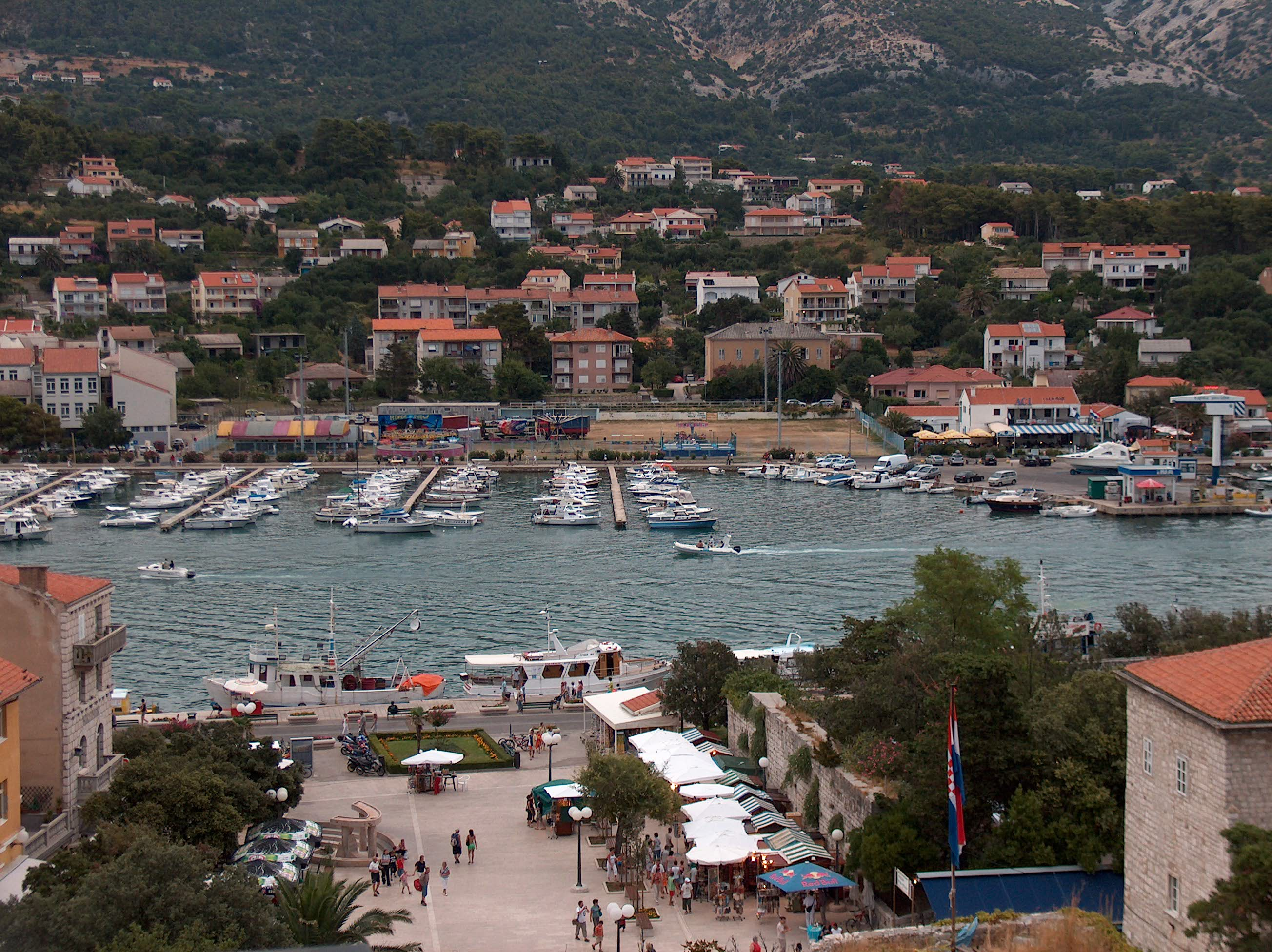 Bay of Town Rab, photographed from a public viewpoint